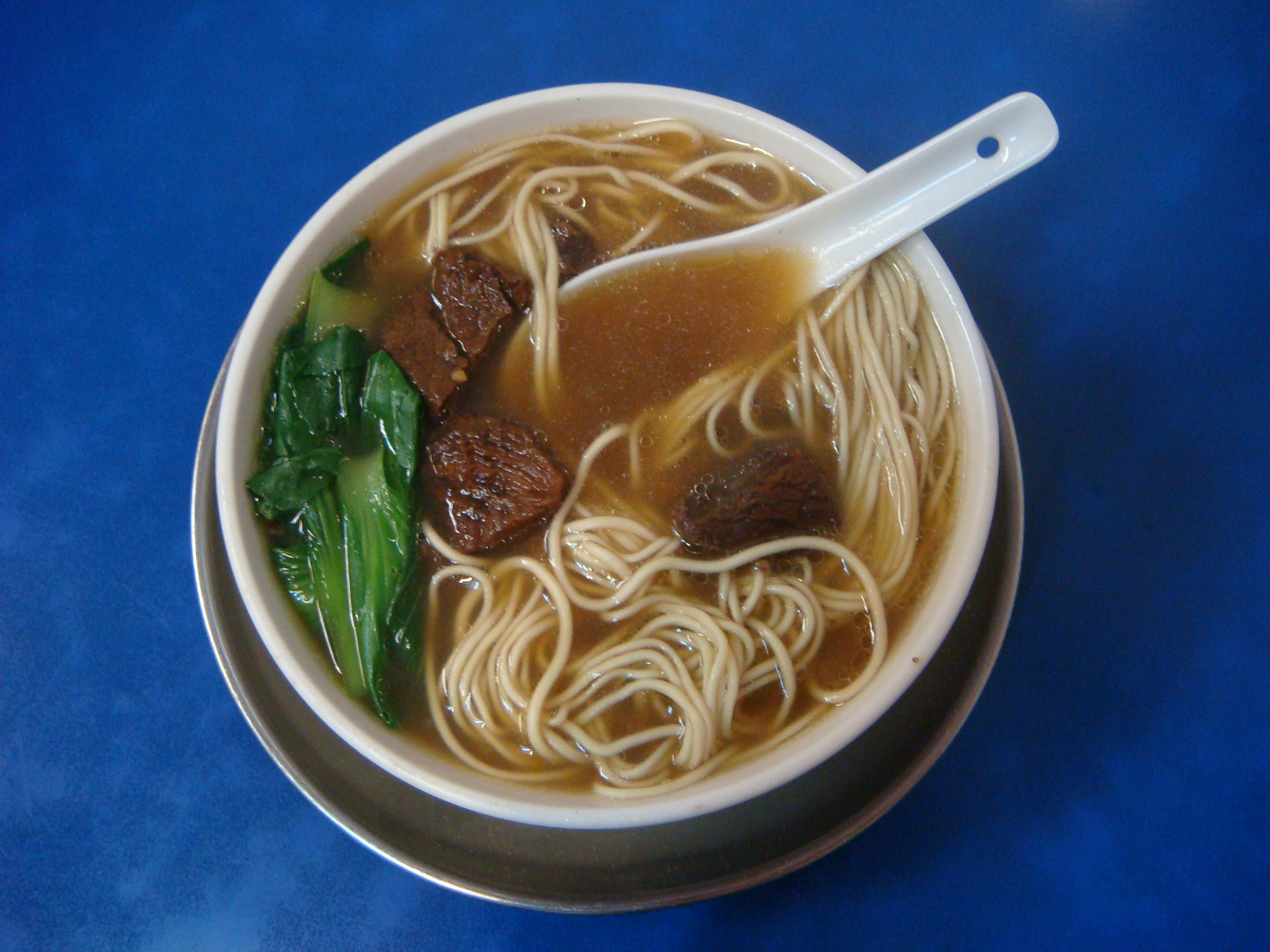 Beef mami